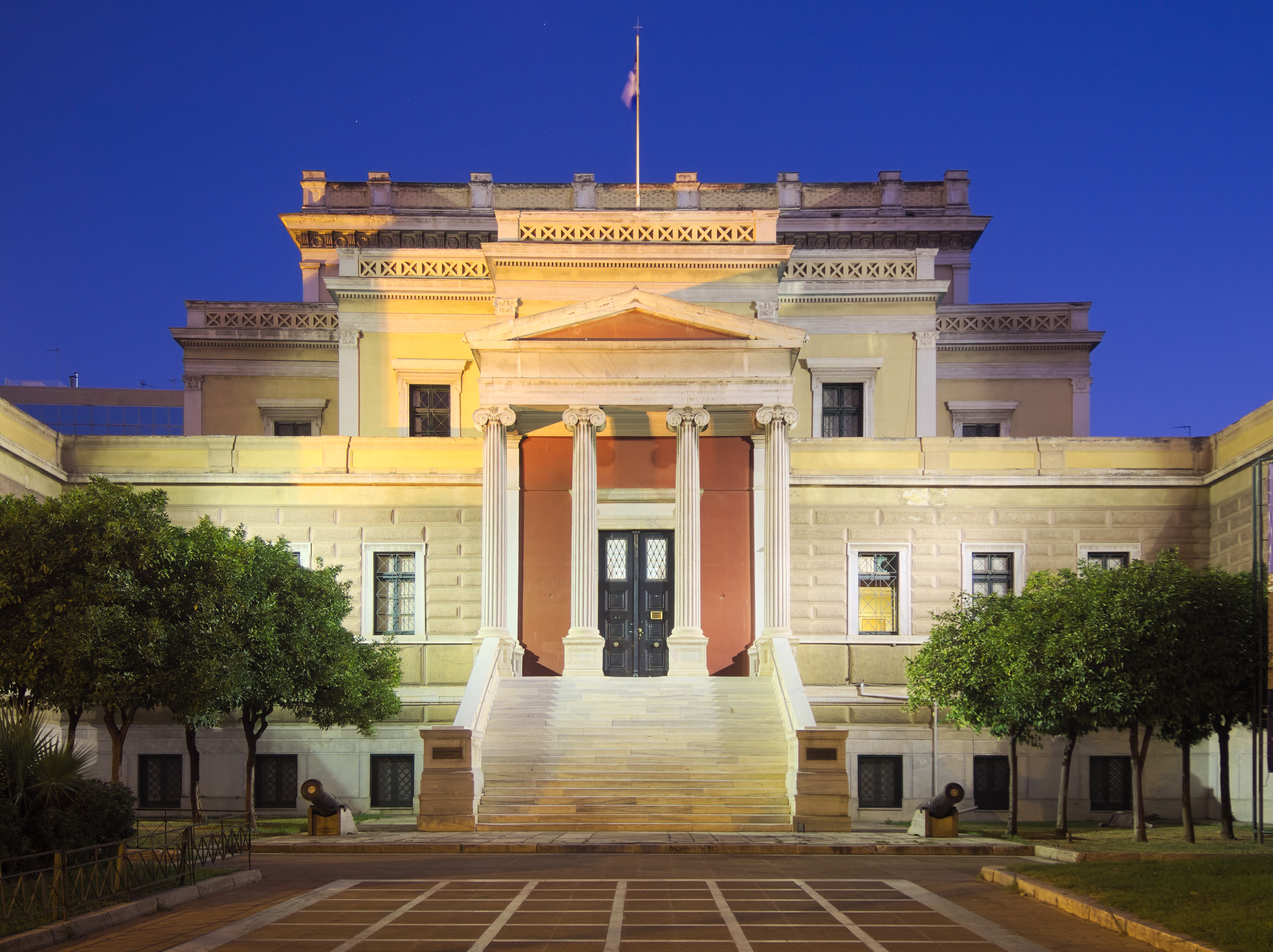 The old greek parliament, main entrance, at dusk.